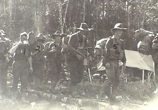 Australian soldiers from the 57th/60th Battalion advance up the Faria River